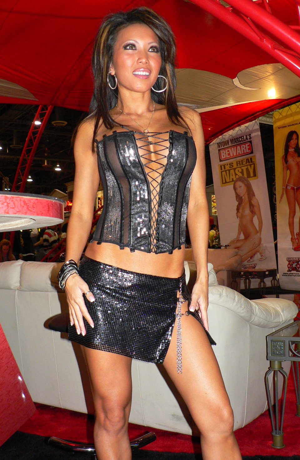 36 year old Vietnamese, Teanna Kai, posing at the Cherry Boxxx Exhibitor's booth at the 2007 Adult Entertainment Expo held at the Sand Expo Center in Las Vegas